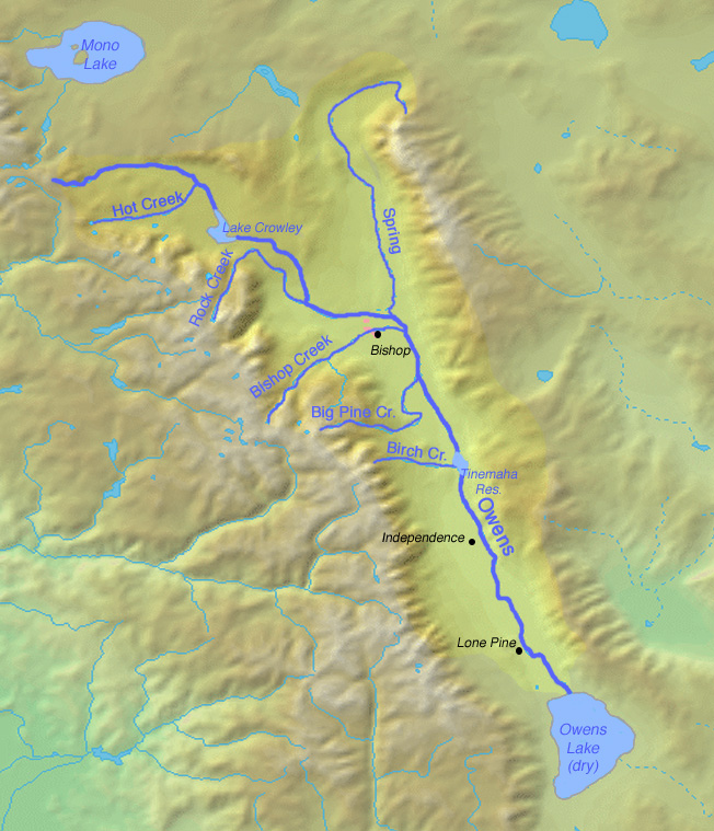 Map of the Owens River watershed in eastern California, which drains to endorheic Owens Lake